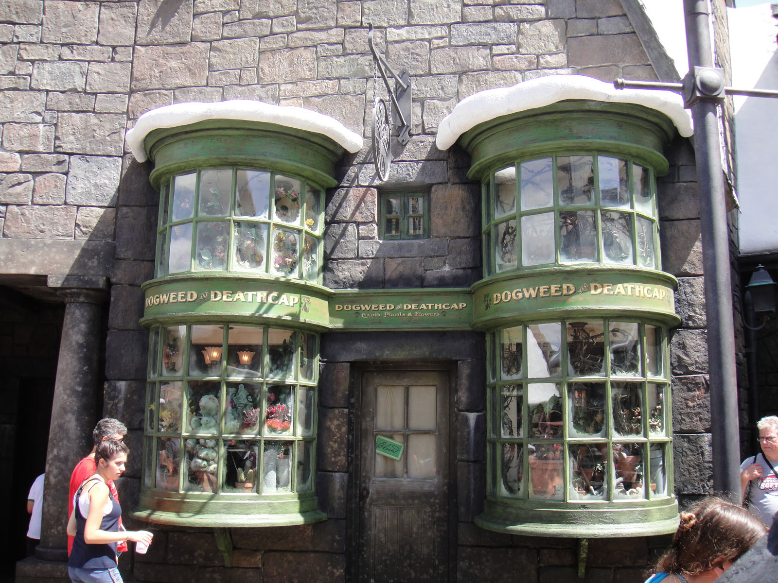 Wizarding World of Harry Potter - Dogweed and Deathcap